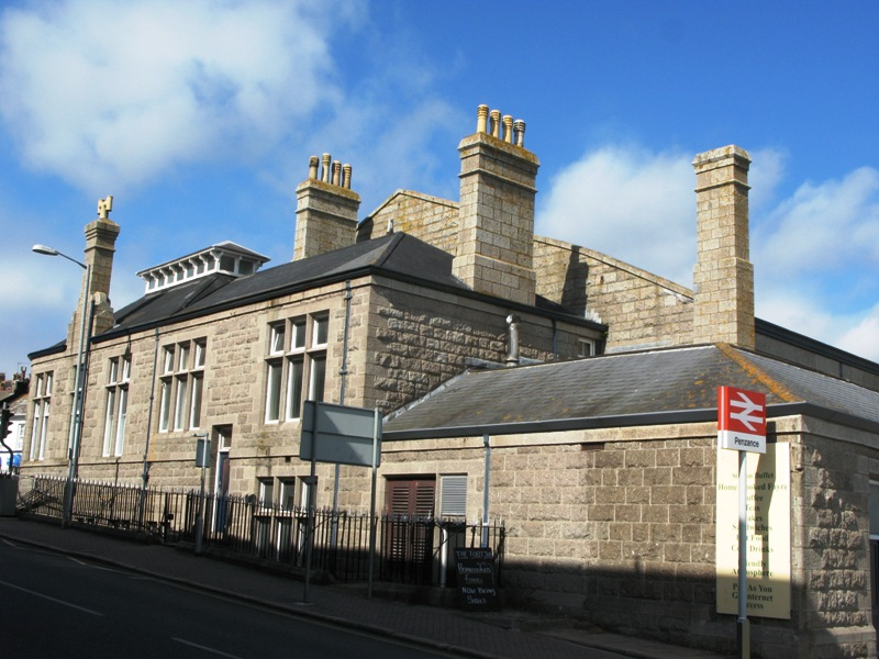 The south side of Penzance railway station, Cornwall, United Kingdom.